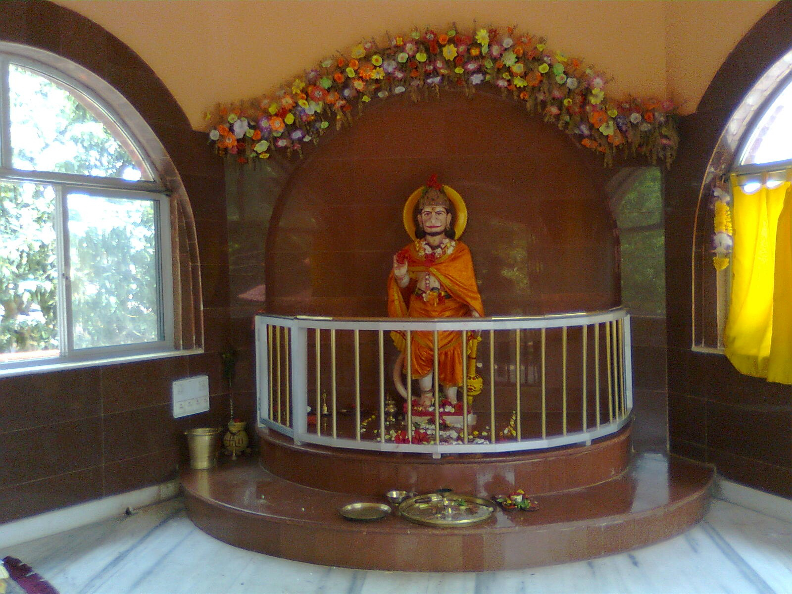 Hanuman JI.